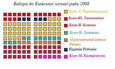 Results of the Kiev City Council election, 2008 in ukrainian language